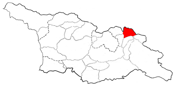 Map of Khevsureti, historical region of Georgia